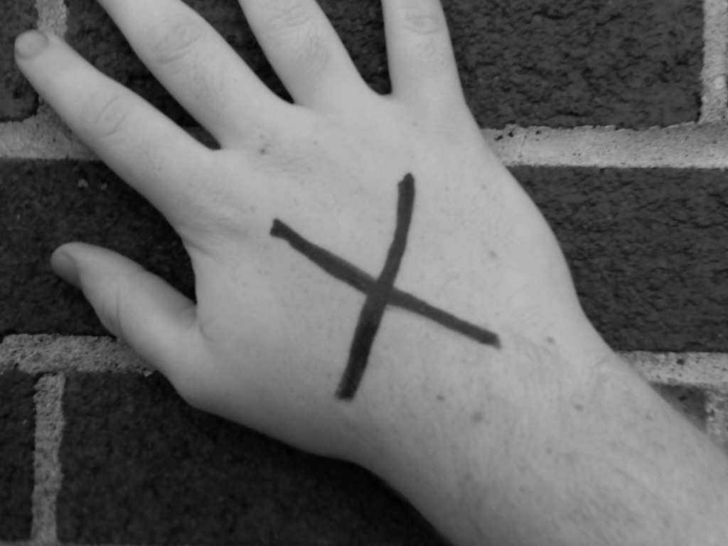 An X on the back of my hand.